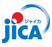 "Symbol design" (logotype) of the Japan International Cooperation Agency, enacted on October 1, 2008